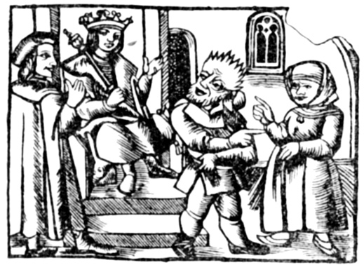 King Salomon an Marchołt - woodcut (1521) from Rozmowy, które miał król Salomon mądry z Marchołtem grubym a sprośnym, a wszakoż, jako o niem powiedają, barzo z wymownym, which was also publicated in Z. Gloger's "Encyklopedia staropolska"